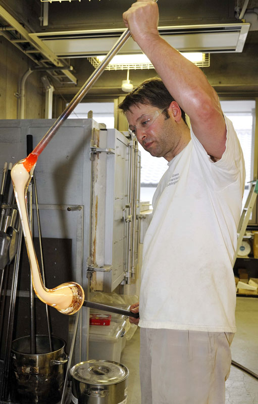 David Patchen working during his residency at the Seto City Ceramic and Glass Center